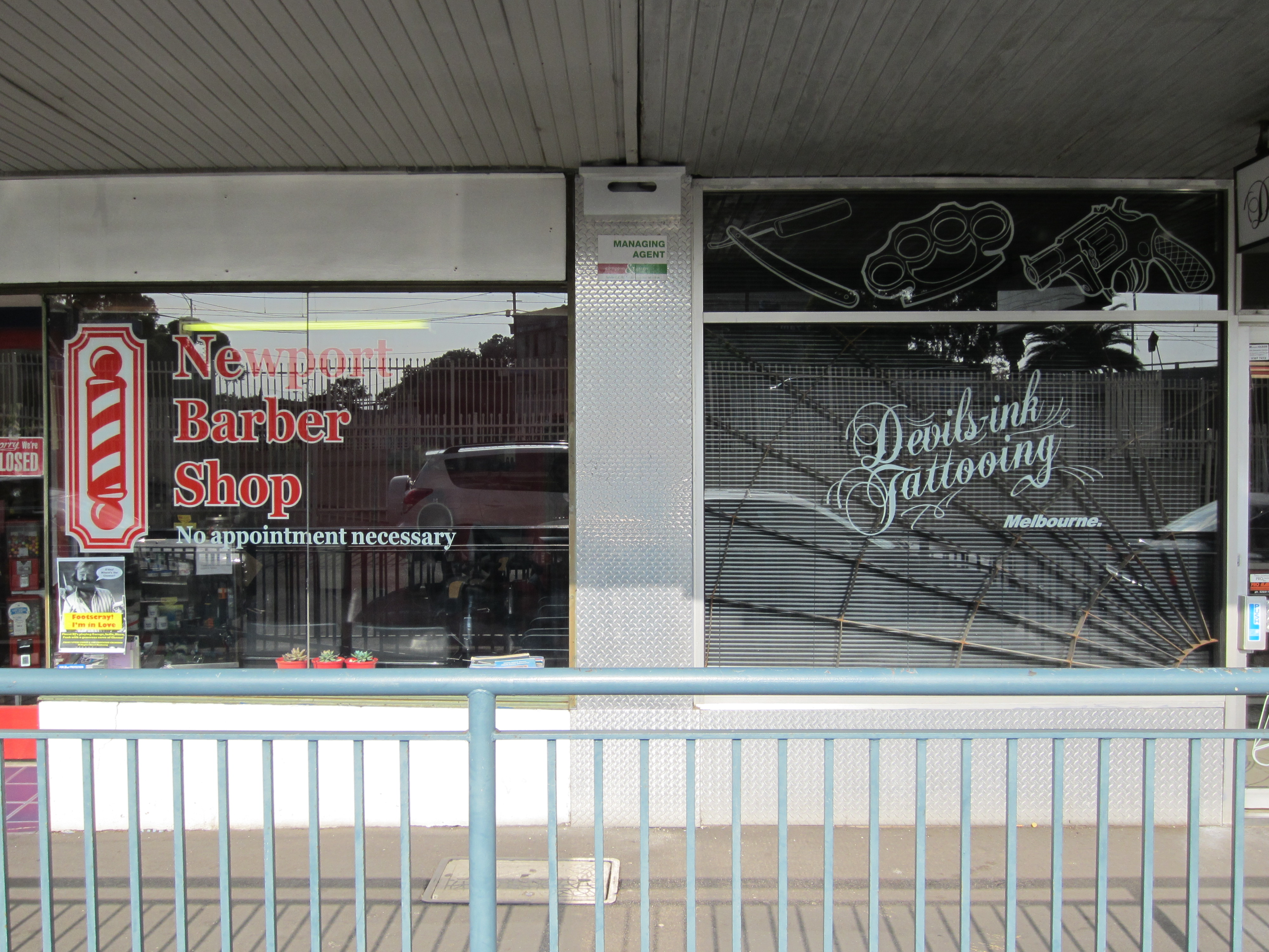 Hall St Shops Newport